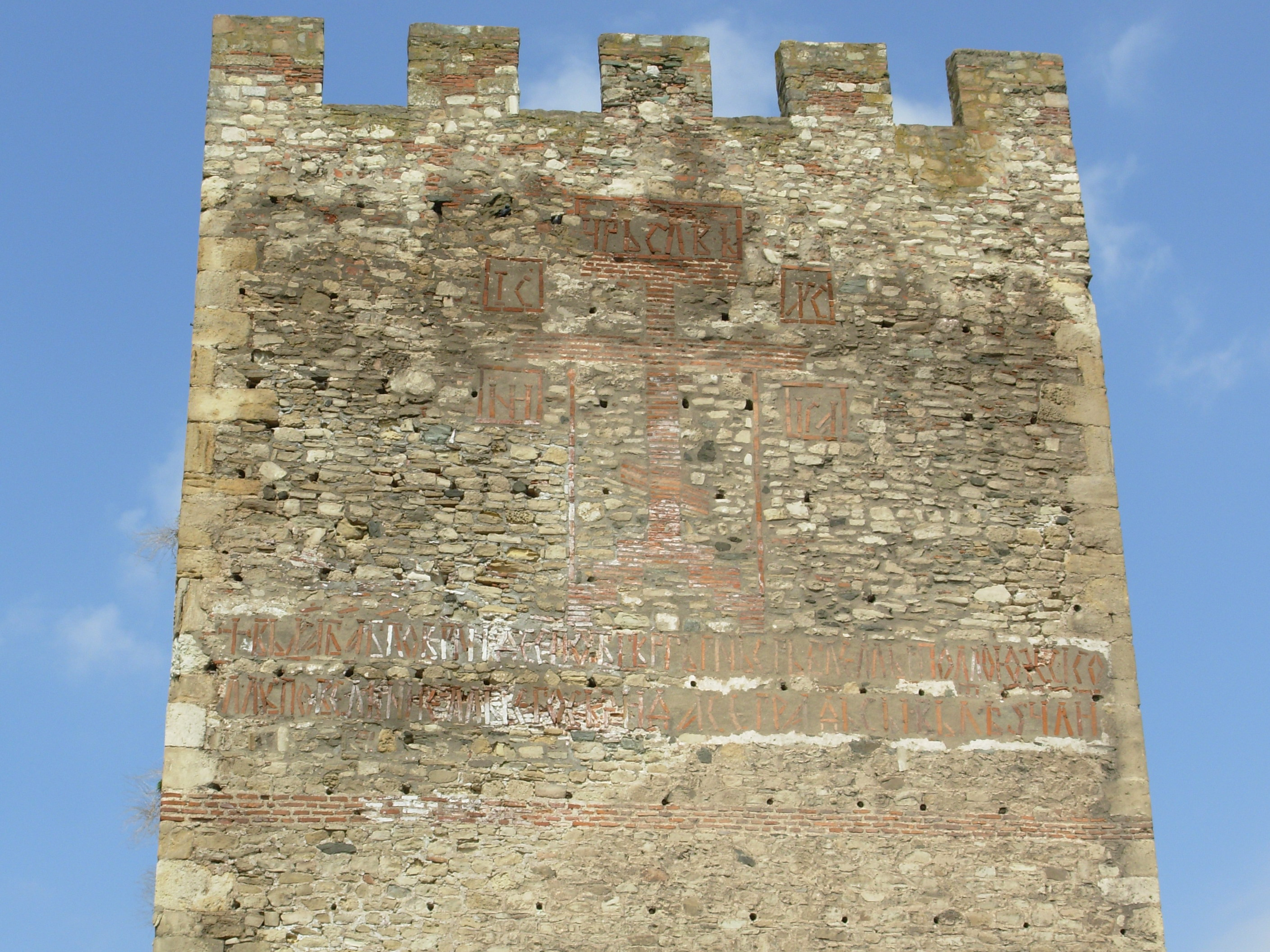 Photo of the Despot's inscription on a small town tower in Smederevo Fortress. The text reads: V Hrista Boga blagoverni despot Gurg, gospodin Srblju i Pomorju zetskomu; zapovešću njegovom sazida se ovaj grad v leto 6938 In Christ the Lord faithful despot Gurg, master of Serbs and the Littoral of Zeta. By His order this city was built in the year of 6938